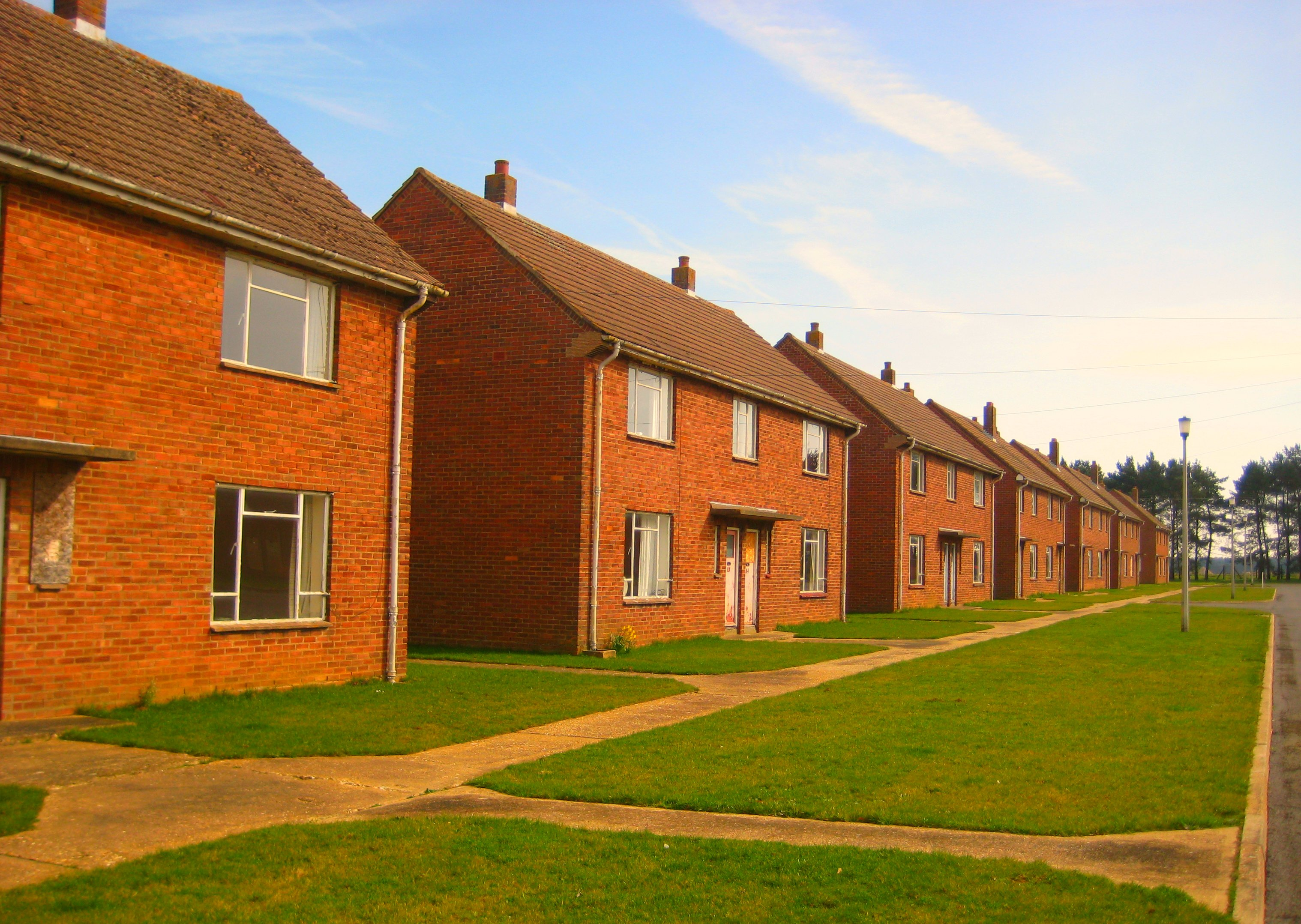 RAF West Raynham in North Norfolk. You can buy one of these from around £115k (March 2009). You get new windows and door, but the rest is down to you. The developer plans to build loft apartments in the former hangars so you can park your aircraft and then live above it. These are the former Airmen's Married Quarter's or AMQs in military parlance.